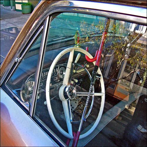 another pulled from my fotolog 'clubs' are a subgenre of this 'into cars' series of mine - one that is becoming harder to find